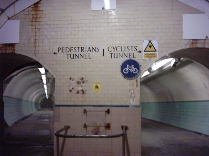 Tyne Pedestrian and Cycle Tunnel